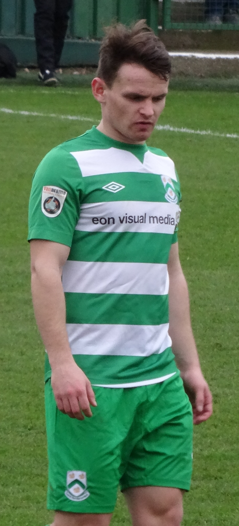 Matty Dixon playing for North Ferriby United against Solihull Moors at Grange Lane, North Ferriby on 18 March 2017